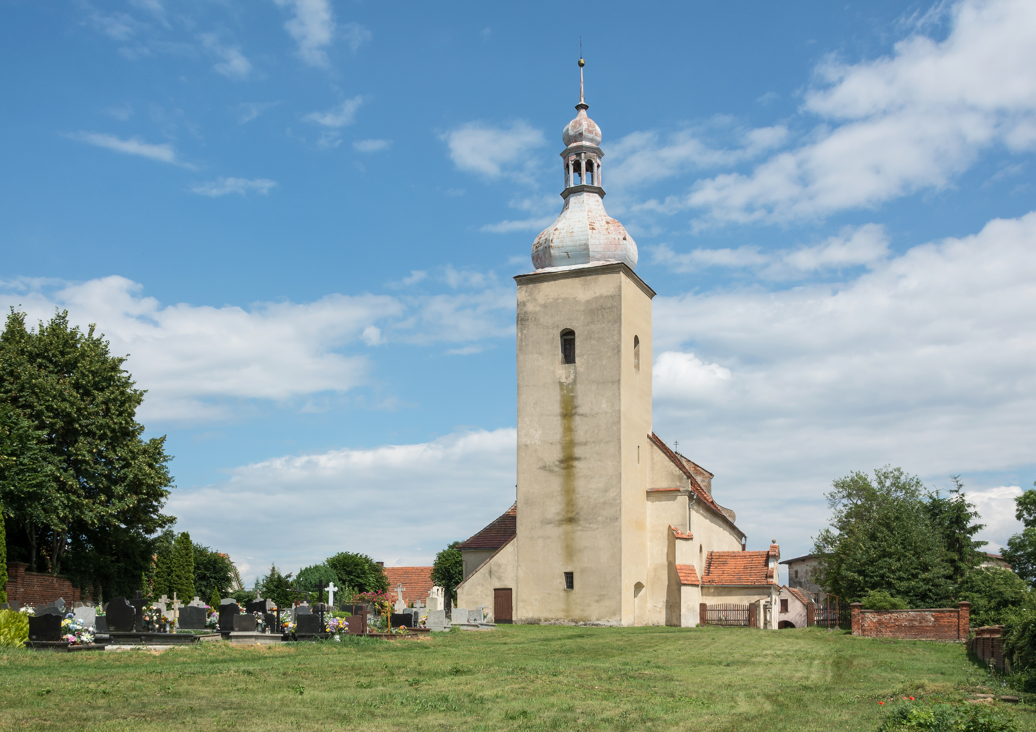 Saint Martin church in Stary Henryków